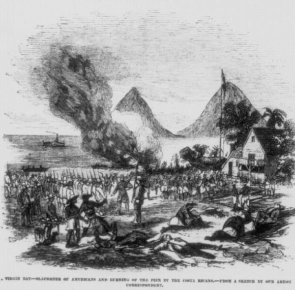 Sketch of the Secong Battle of Rivas, Nicaragua in 1856 from Frank Leslie's Illustrated Newspaper.